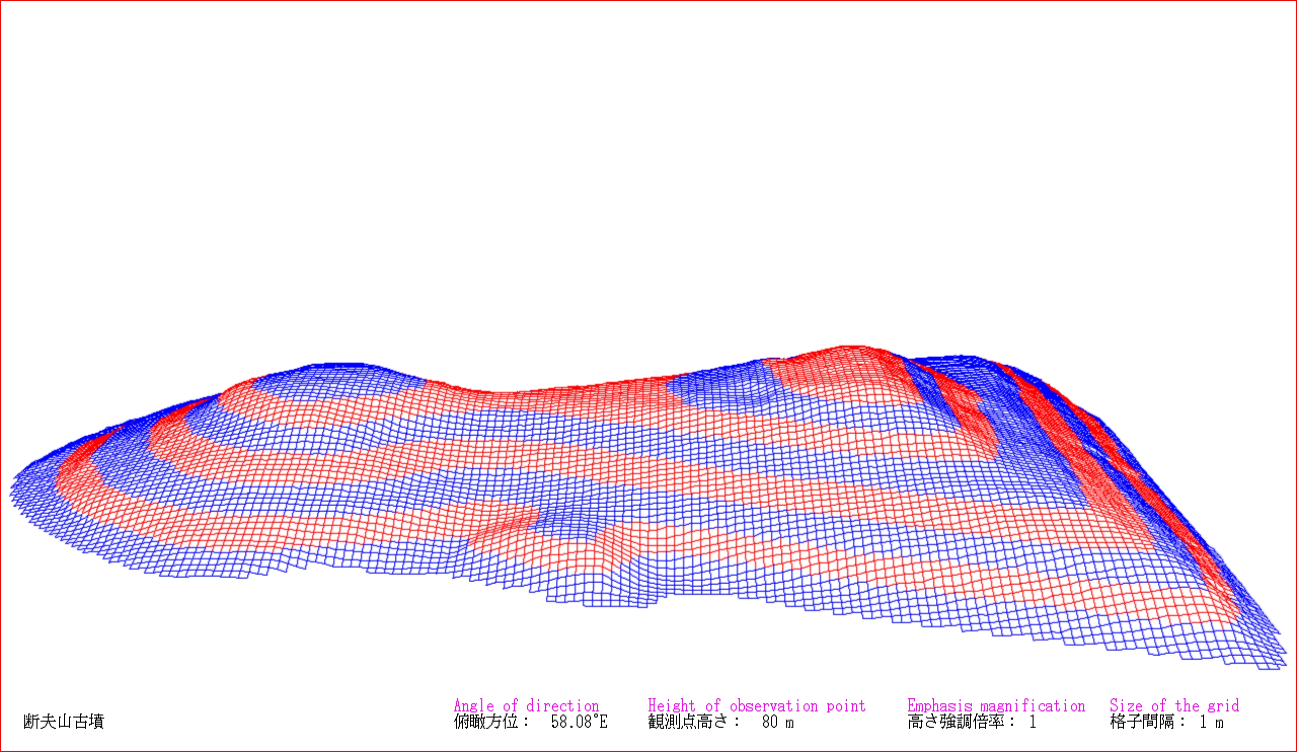 I who am a contributor drew the picture by a software which developed by myself. The survey map which I referred to depends on "第６回東海埋蔵文化財研究会実行委員編『断夫山古墳とその時代』愛知考古学談話会 (1989年）". This is a drawing of present situation (not a drawing of a restored mound). The drawing depends on combination of wire frame and height eight phases classification. Perspective projection.